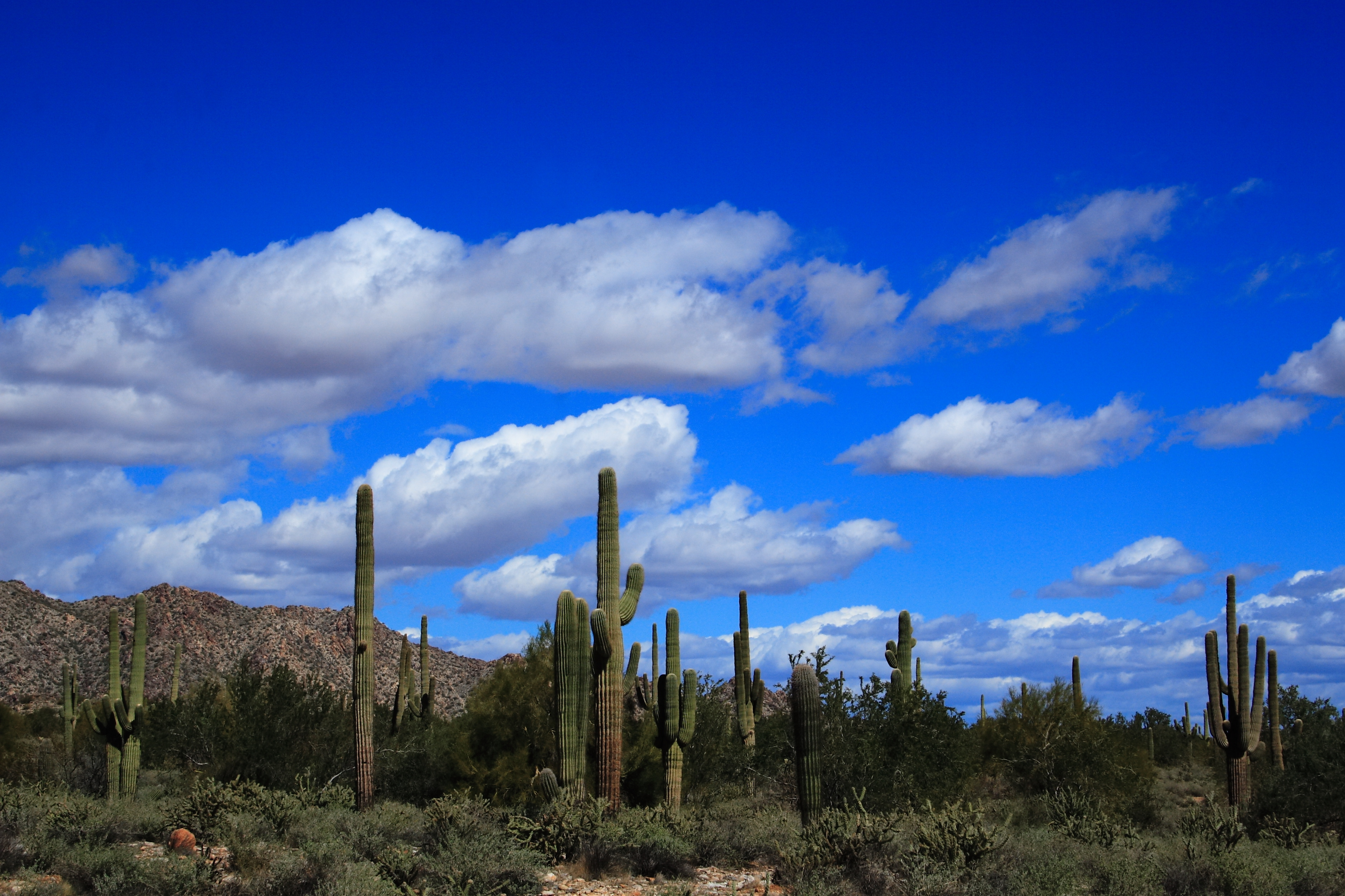 White Clouds over the White Tanks, in Arizona